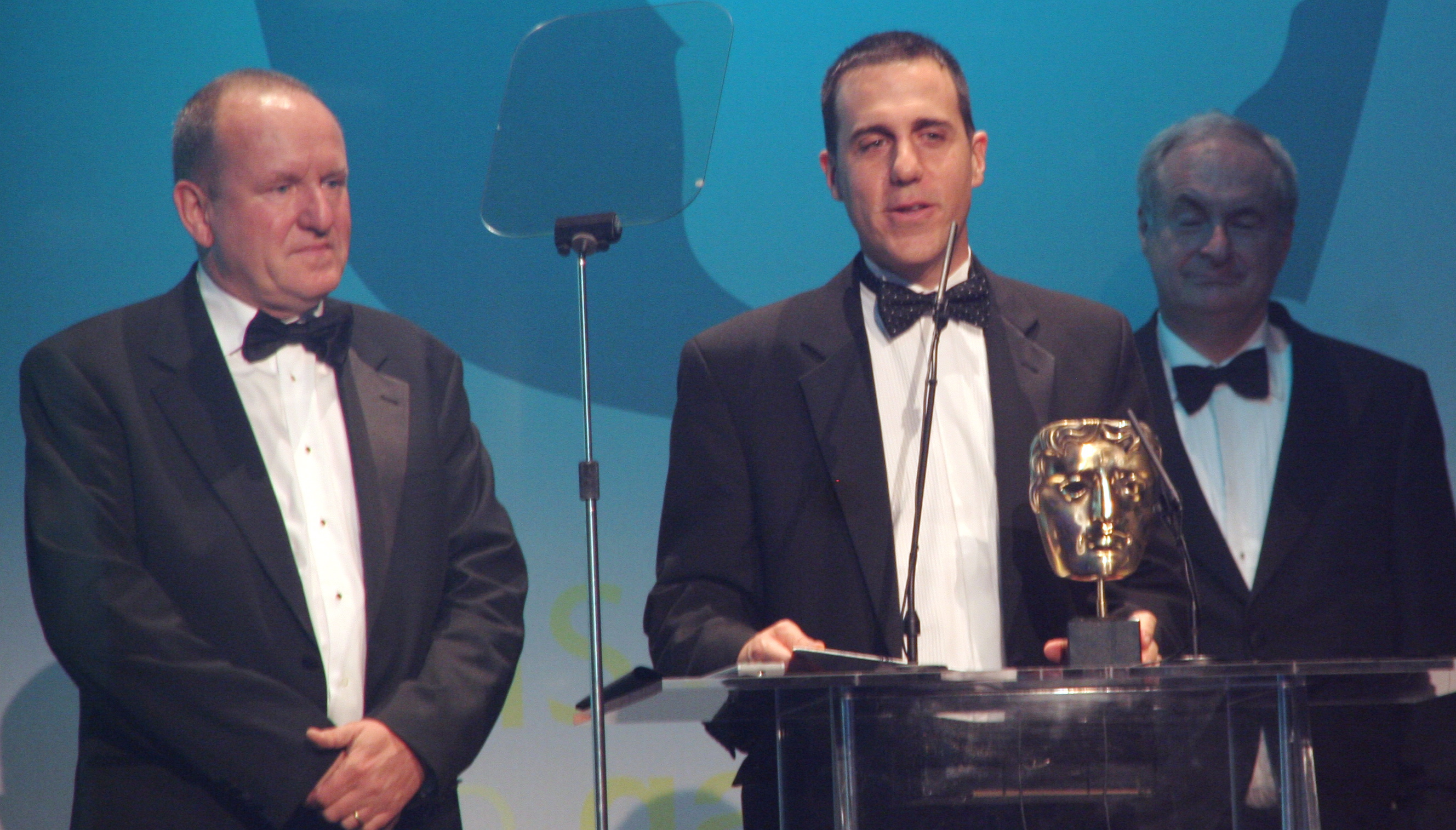 Ian Livingstone and Paul Gambaccini, during the Bafta Awards 2006.